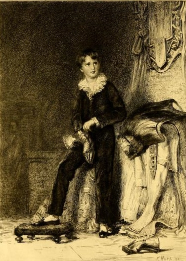 George Seton, aged 10, taken from his "History of the Family of Seton", published 1896